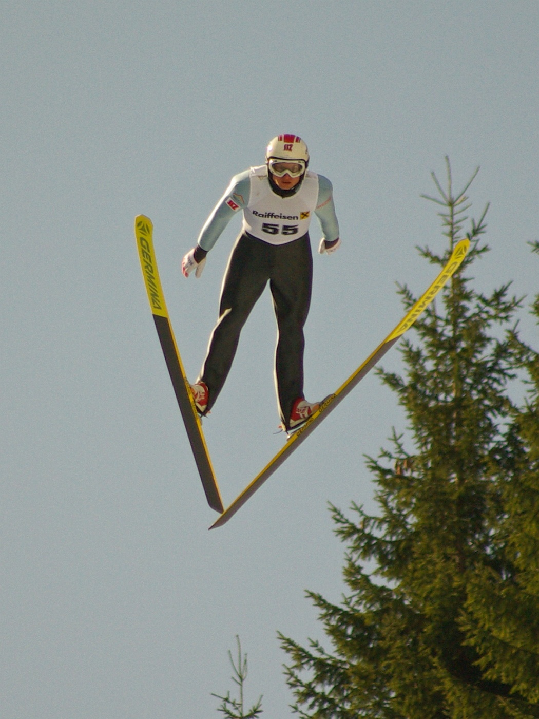 Czech nordic combined skier Pavel Churavý during the World Cup B sprint event in Eisenerz (Austria) on 9 March 2008.